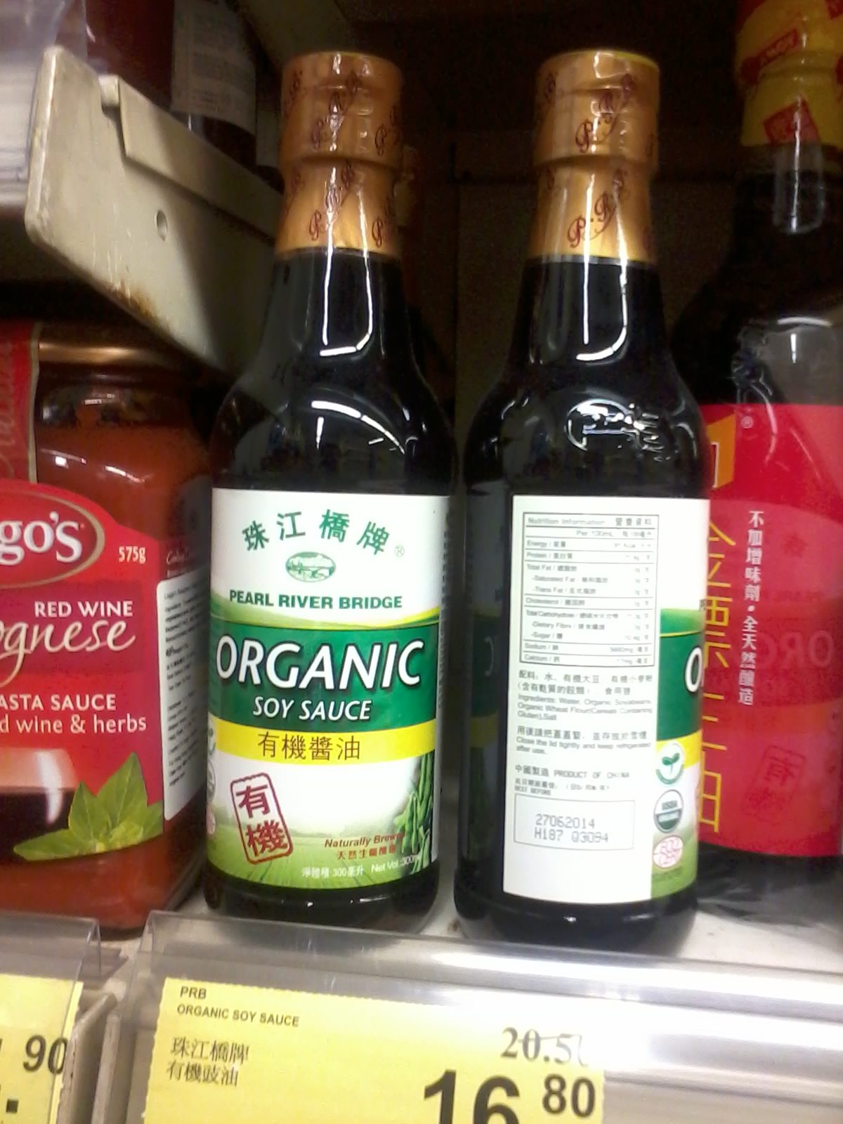 珠江橋牌